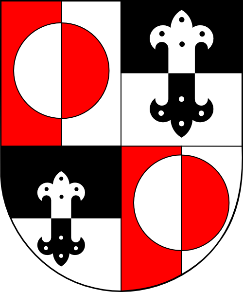 Coat of arms (shield only) of Michael von Kuenburg, archbishop of Salzburg, Austria (1554 - 1560).